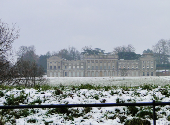 Heveningham Hall on a cold November day